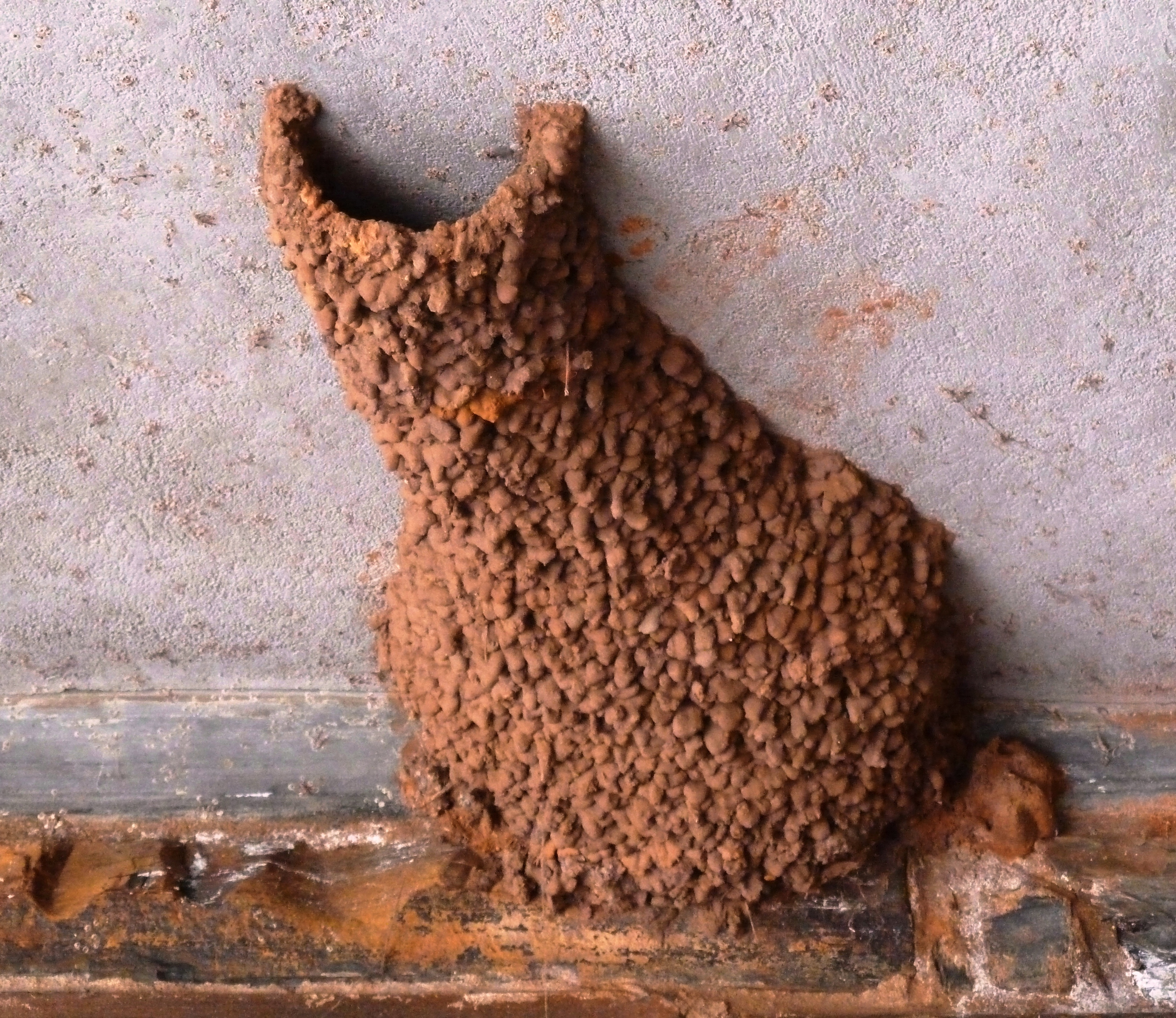 Nest of a pair of Greater striped swallows at Preller house, Phalandingwe, Pelindaba